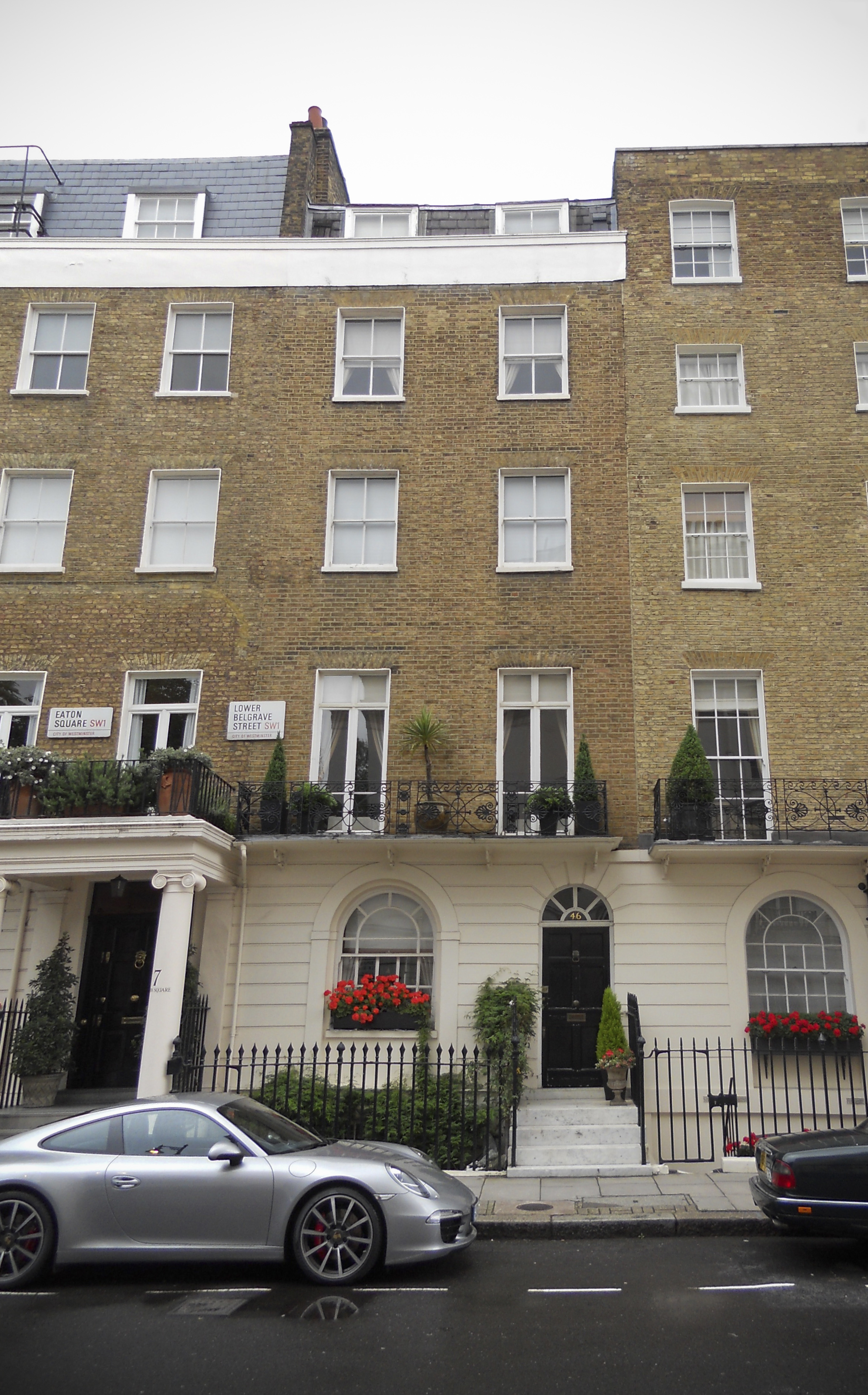 Exterior view (all levels) of 46 Lower Belgrave Street, Victoria, London, UK. Photographed on 24 June 2012.